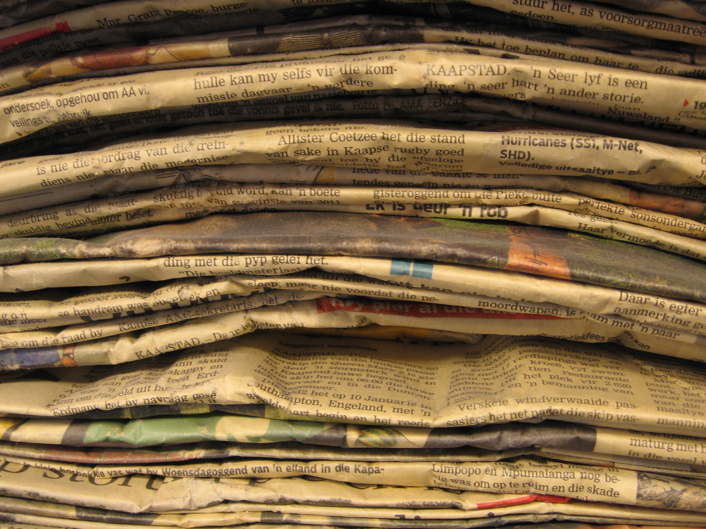 Library stack of copies of the South African newspaper Die Burger, 2012. Newspaper stack.